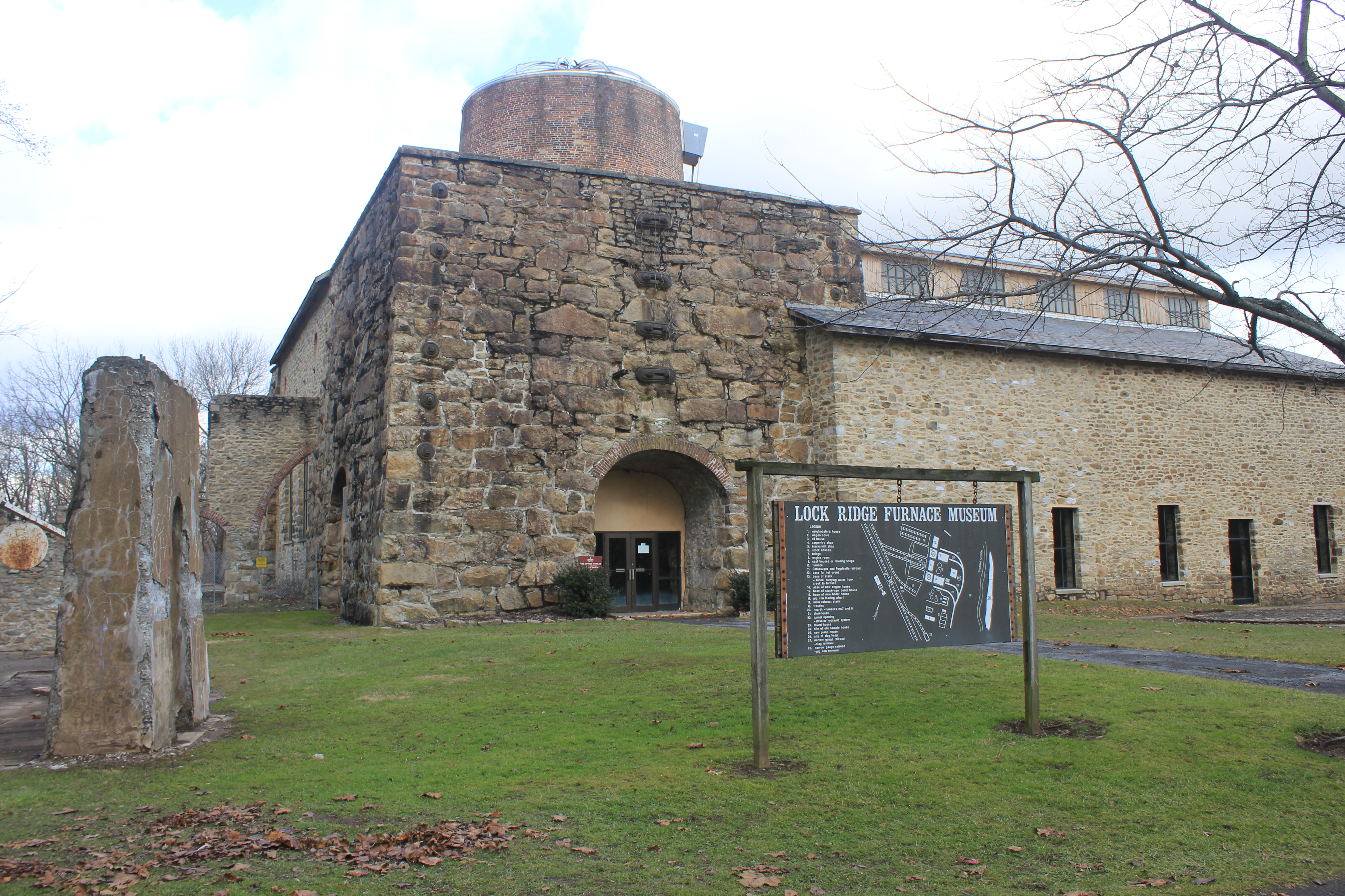 Lock Ridge Furnace Museum. Alburtis Pa